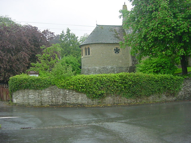 Chancel of St Andrew's parish church, Adforton, Herefordshire, next to the A4110 road. The church was built as a chapel of ease to Leintwardine parish in 1875.